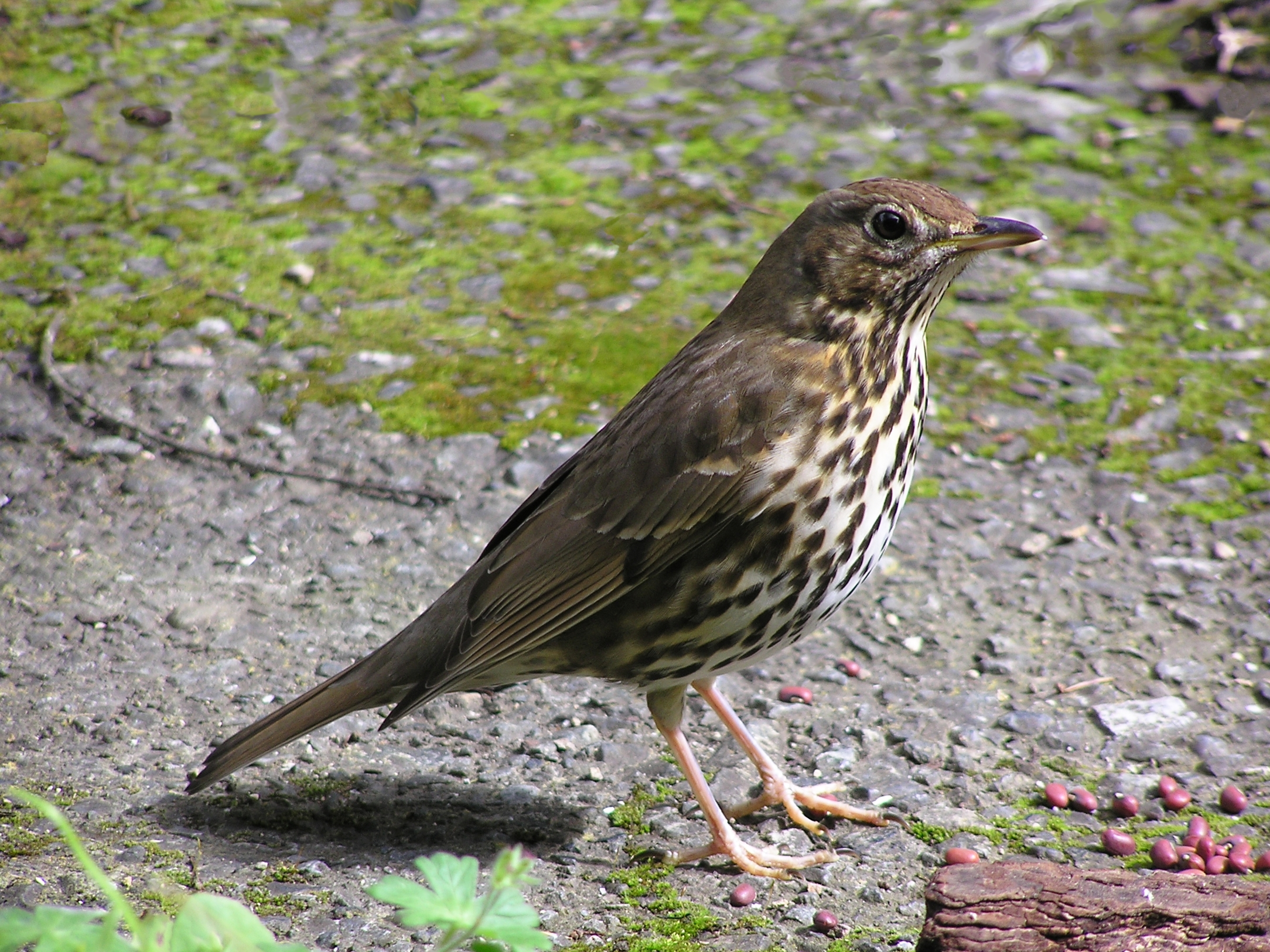 Song Thrush in Wellington, New Zealand (introduced species)